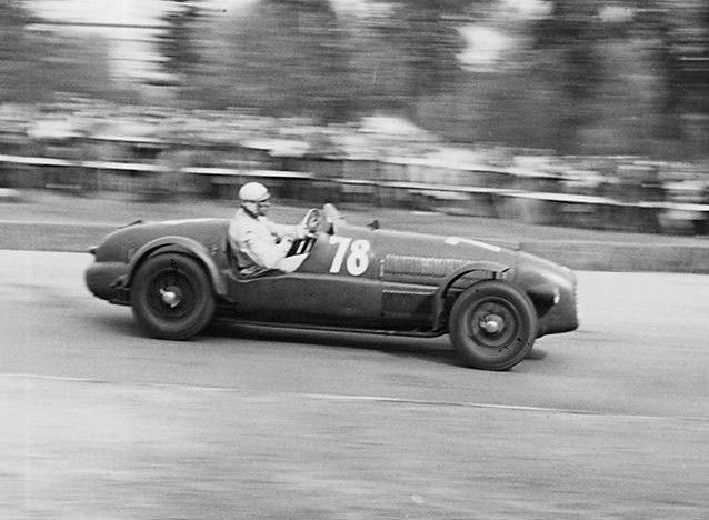 Entry #78 at the Circuito Valentino in Torino on Oct 12, 1947 was Raymond Sommer driving a 1947 Ferrari 159 s/n 002C.[1]